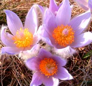 Pulsatilla grandis, Pasque flower .Sunny,stoned,dry place. Nature relic "Netopýrky", Brno Komín,Czech republic,Evropa.